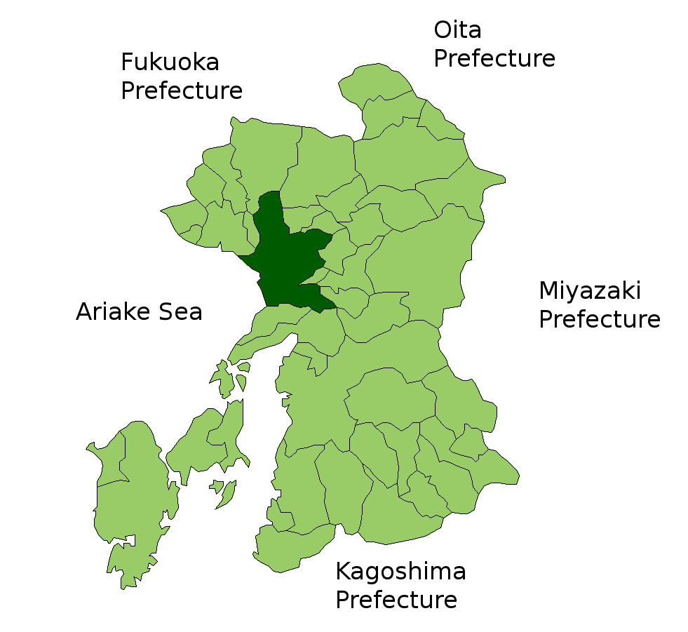 The location of Kumamoto in Kumamoto Prefectuur, Japan